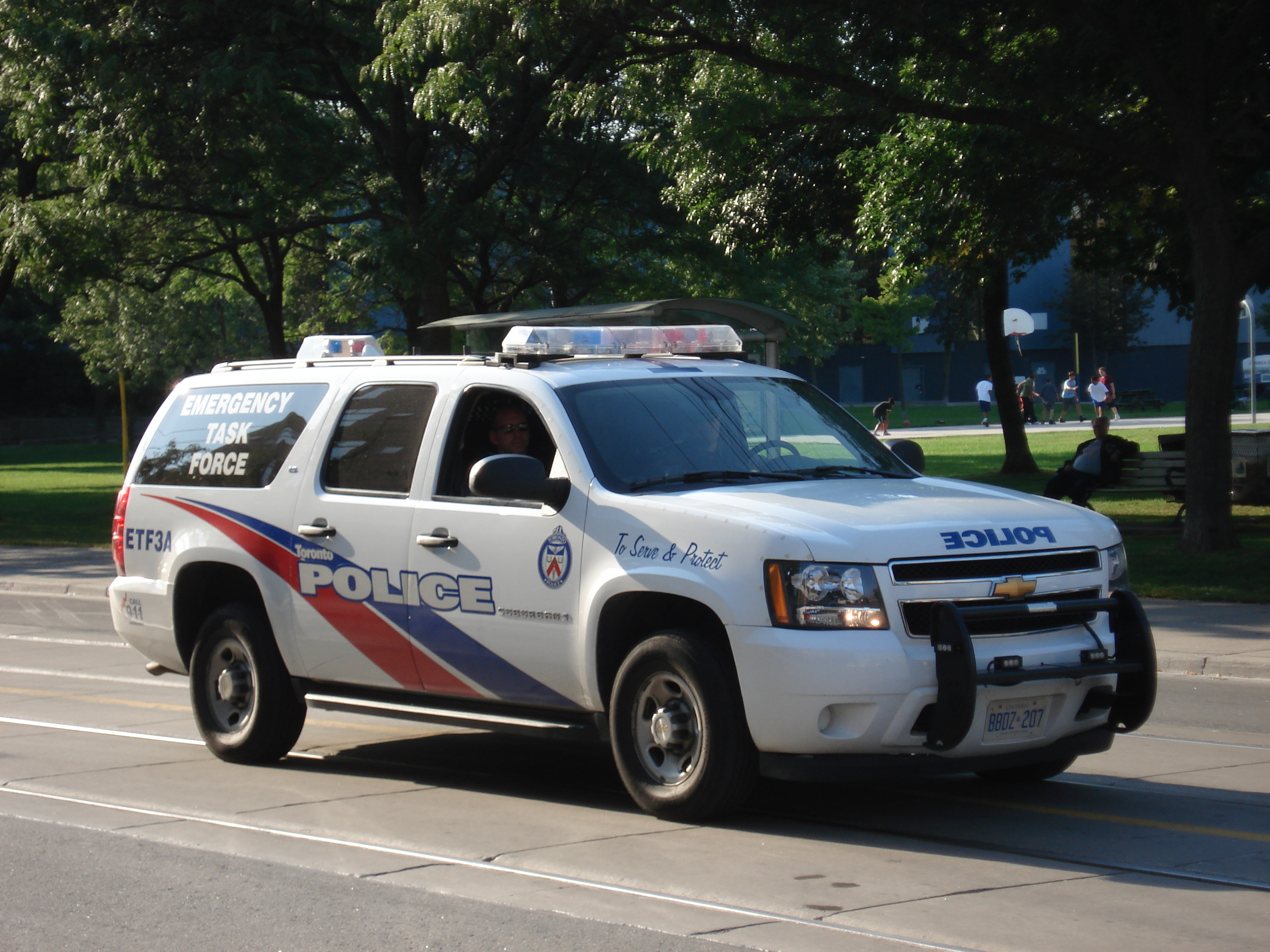 Toronto Police Service Emergency Task Force vehicle on Queen Street, with "POLICE" in mirror writing ("ECILOP").